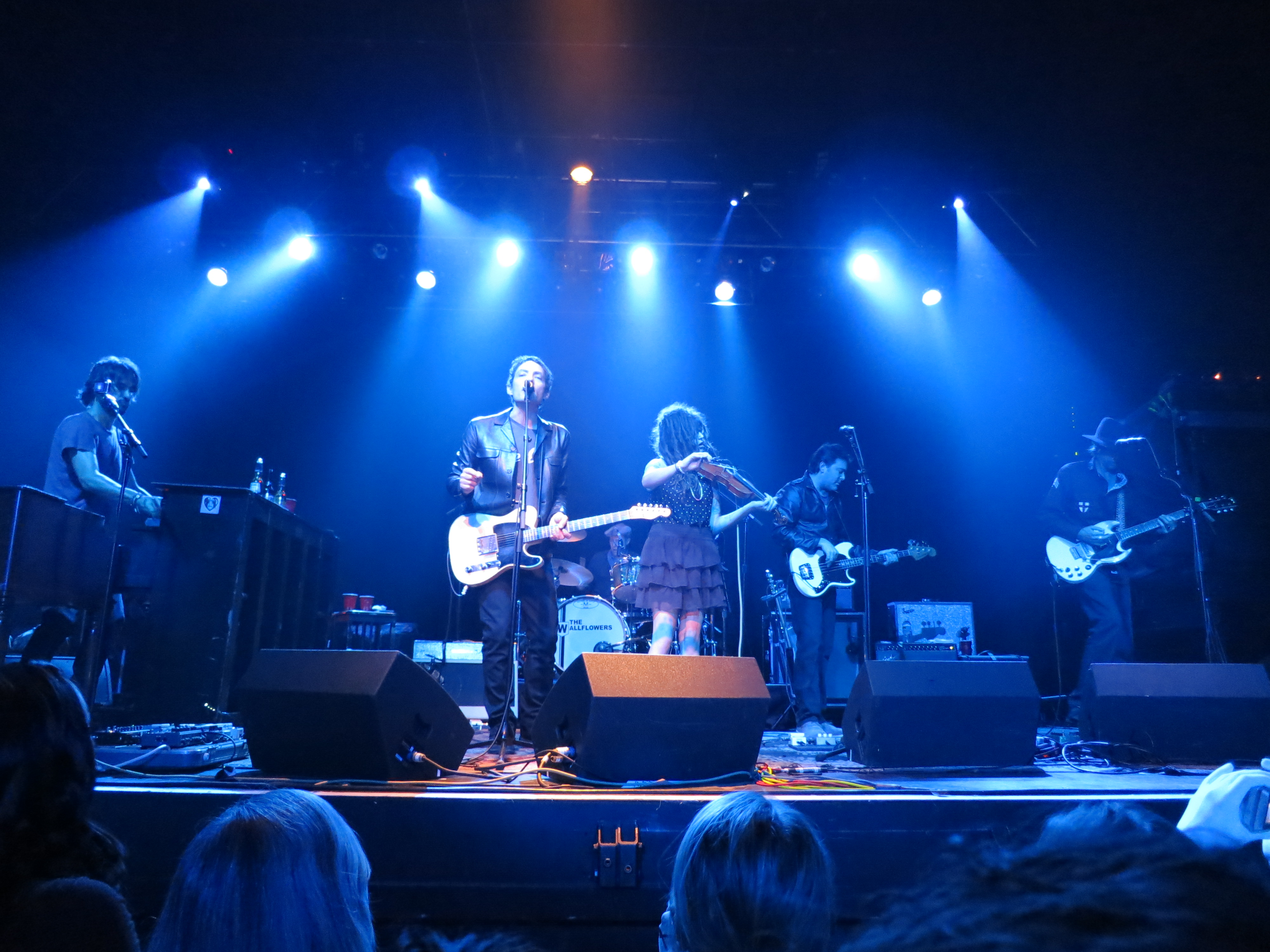 The Wallflowers performing at First Avenue Mainroom in Minneapolis, Minnesota on 2012-10-27